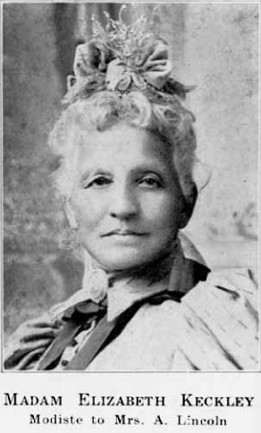 Elizabeth Keckly